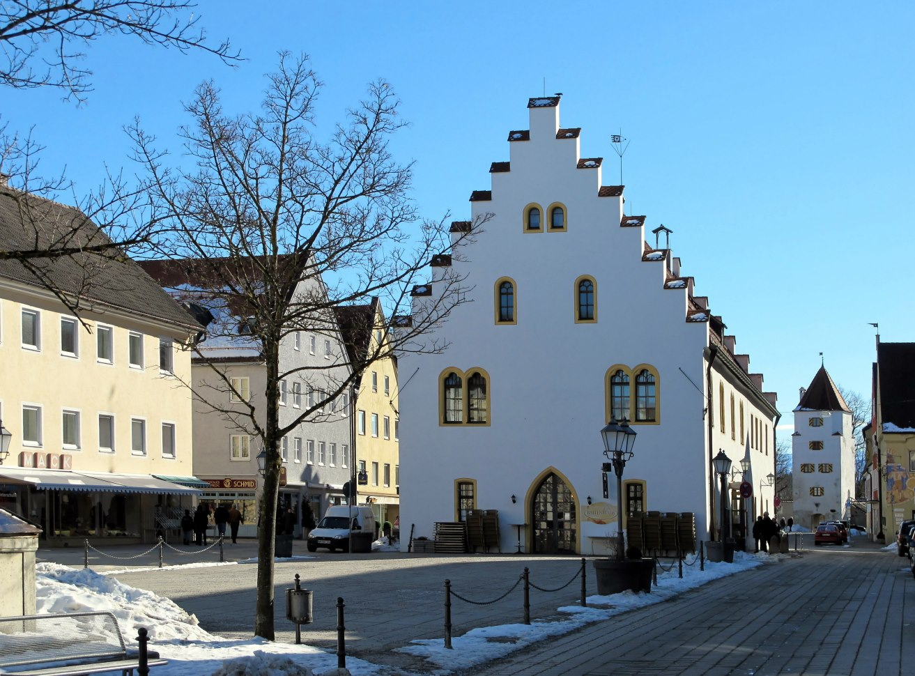 Schongau, Building "Ballenhaus" and Tower "Polizeidienerturm" (right Side))